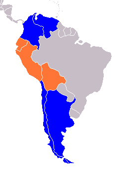 Andean States